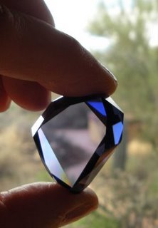 The cubic zirconium replica of the Tavernier Blue diamond — original from central India. Later cut as the French Blue Diamond, and recut as the Hope Diamond. Created by Scott Sucher. [1].